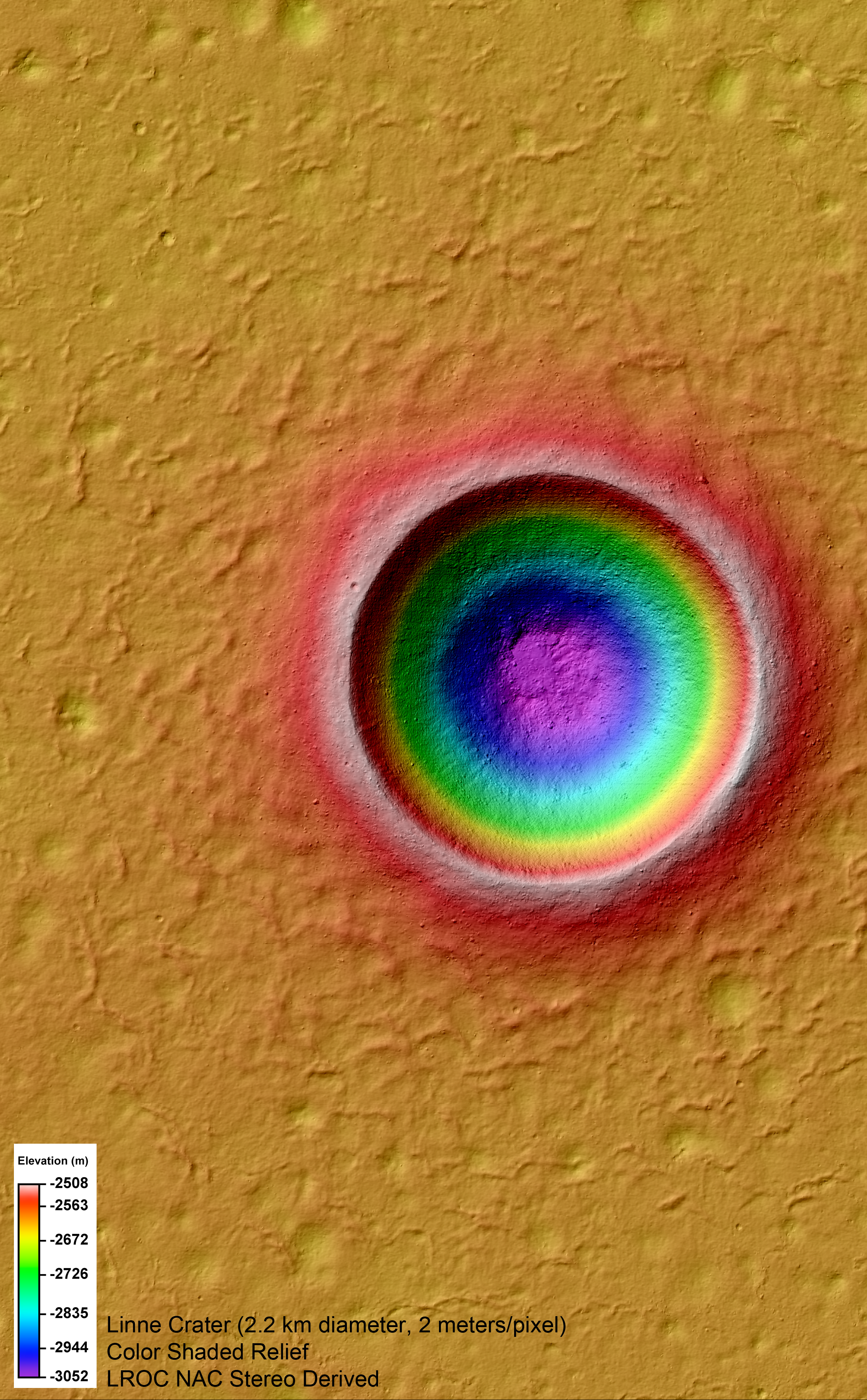 Barnstorming Linné crater: Color coded shaded relief map of Linné crater (2.2 km diameter) created from an LROC NAC stereo topographic model. The colors represent elevations; cool colors are lowest and hot colors are highest. Linné (2.2 km diameter) is a very young and beautifully preserved impact crater. LROC stereo images provide scientists with the third dimension - information critical for unraveling the physics involved in impact events. The LROC science team presented a first analysis of Linné crater topology at the Lunar and Planetary Science Conference last week. The high resolution topographic model also provides the means to make synthetic views of the crater from any angle. By creating hundreds of such views and slightly changing the view point for each image a dramatic fly around movie appears on the screen!